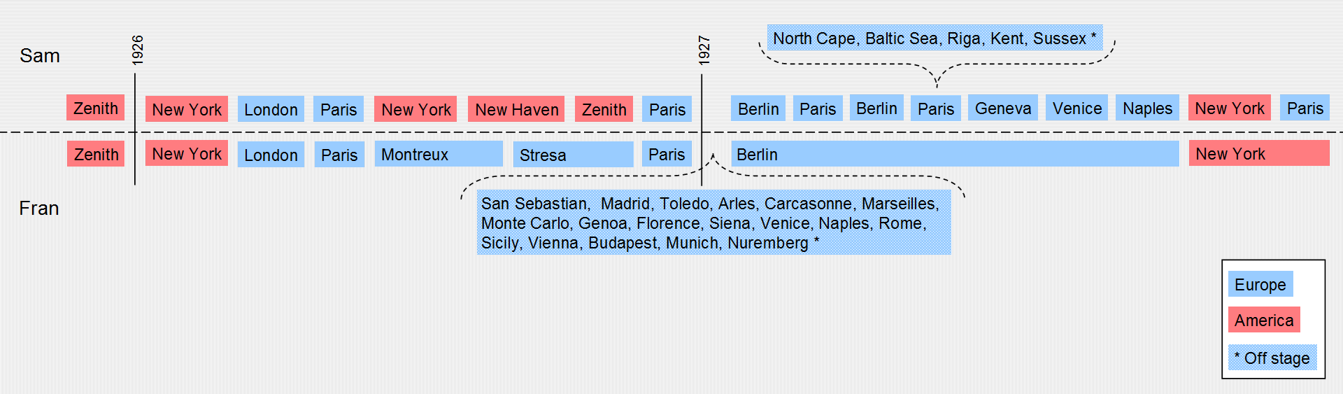 This image charts the itineraries of Sam and Fran Dodsworth's transatlantic travels in Sinclair Lewis's satiric novel 'Dodsworth', first published in 1929.